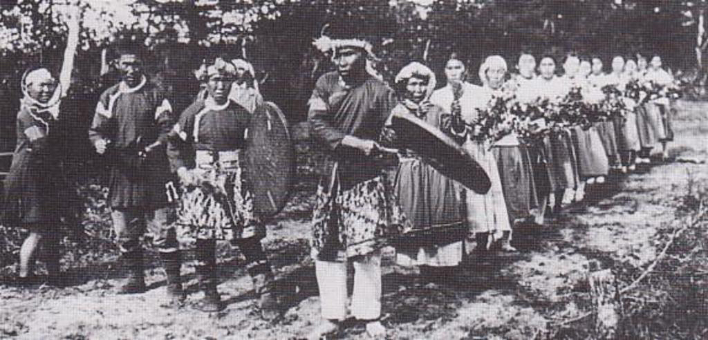 Nivkh People (Ethnic group in Karafuto aka Sakhalin)